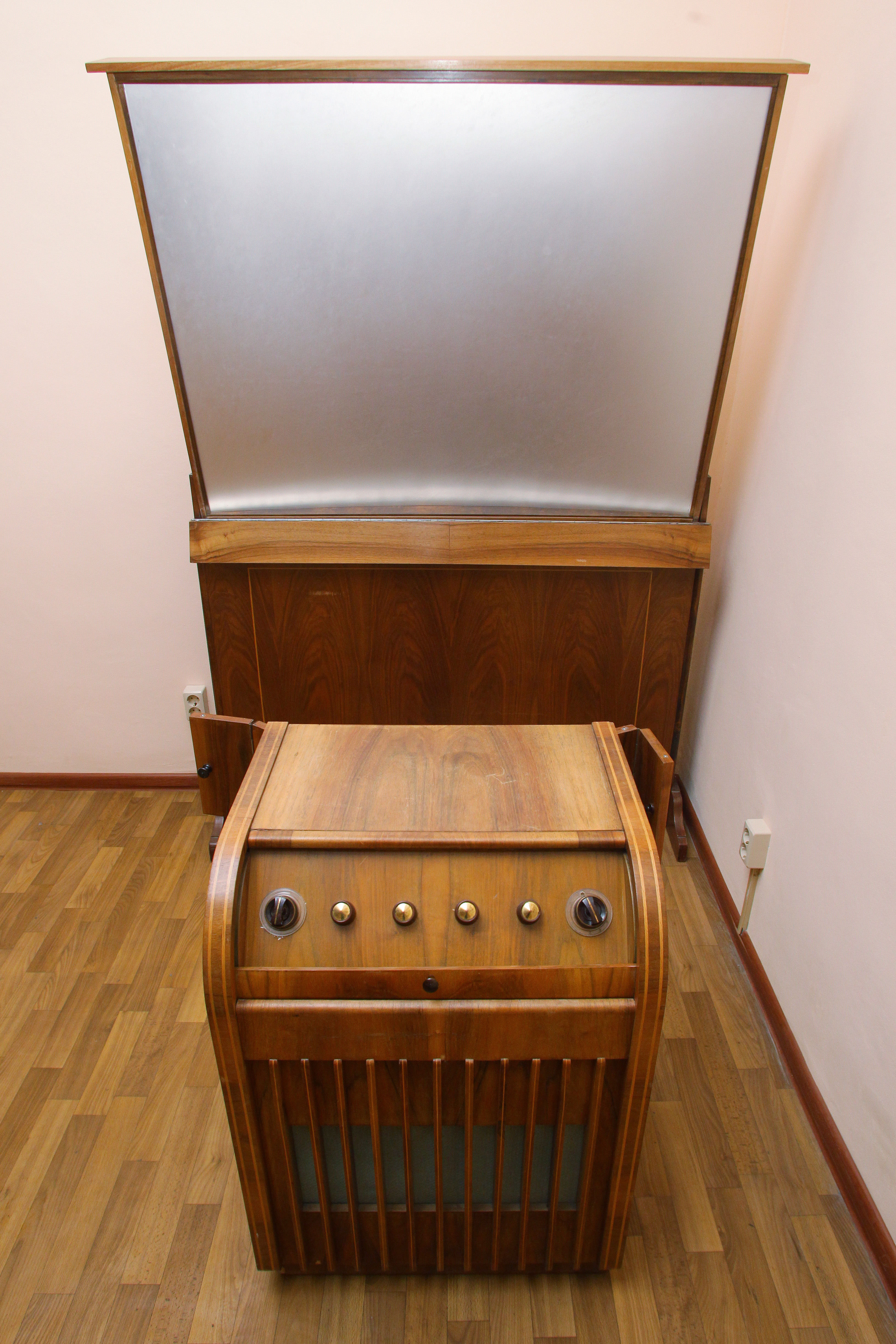 Soviet b&w front projection TV-set "Москва" (Moscow), 1957-1963. In total, 2125 units were made.